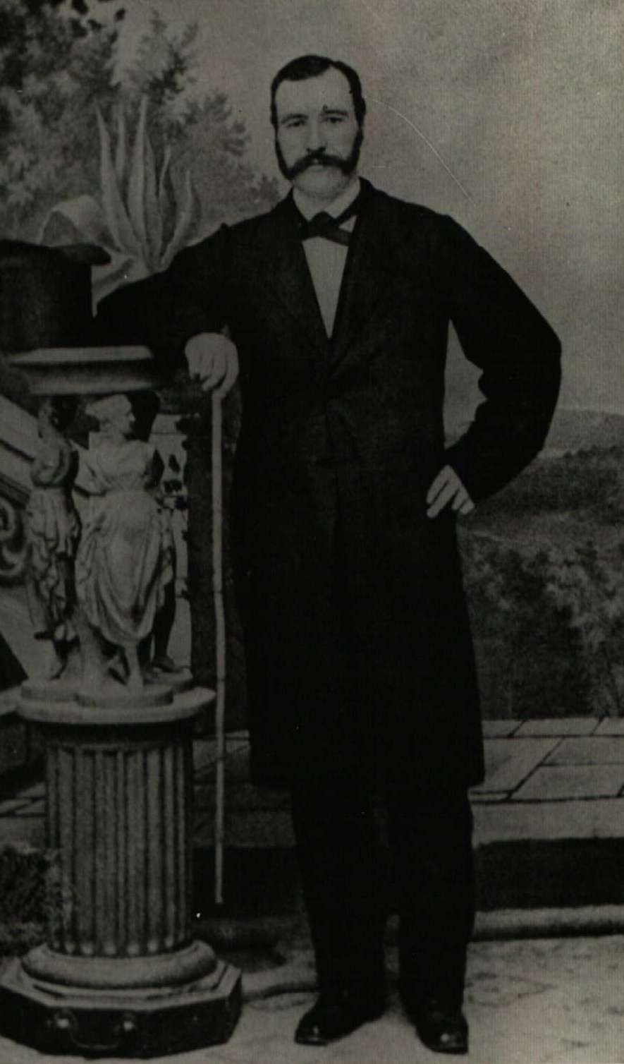 Bulgarian revolutionary and writer Georgi Sava Rakovski (1821-1867)